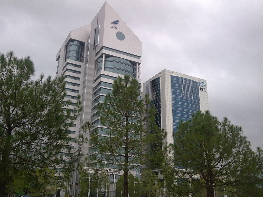 PTET & ISE TOwer